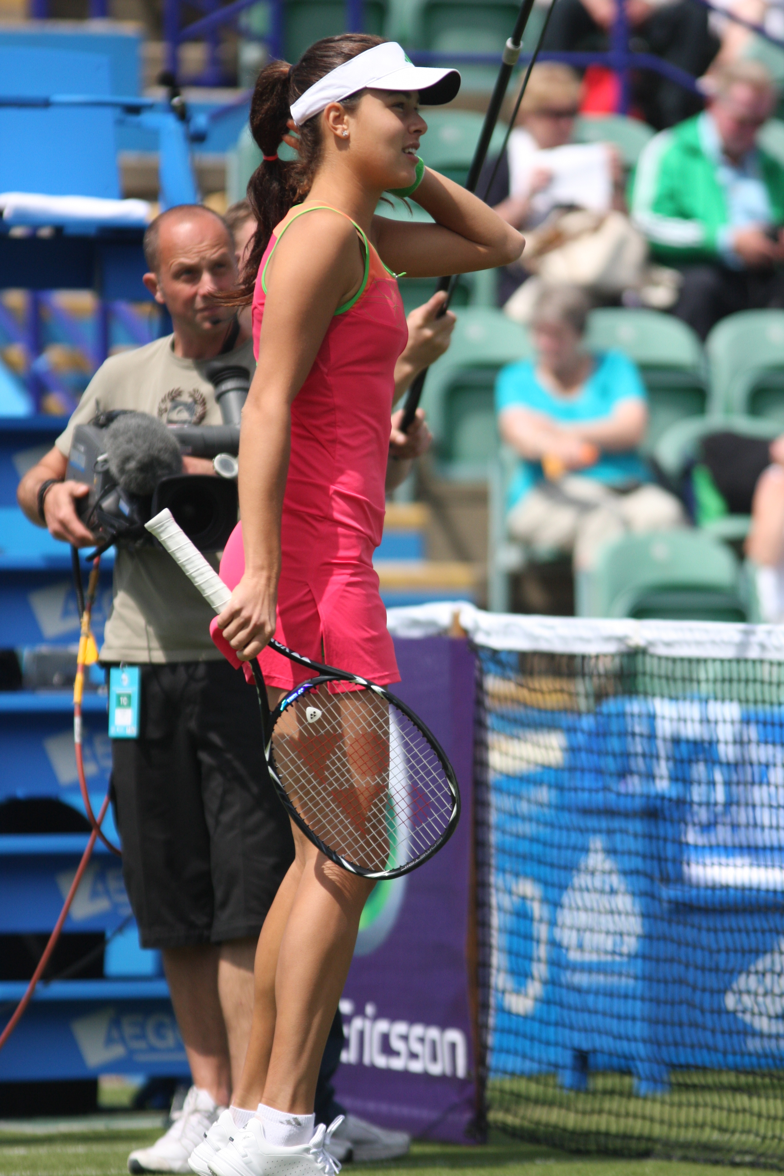 Ivanovic at the net waiting for the toss.